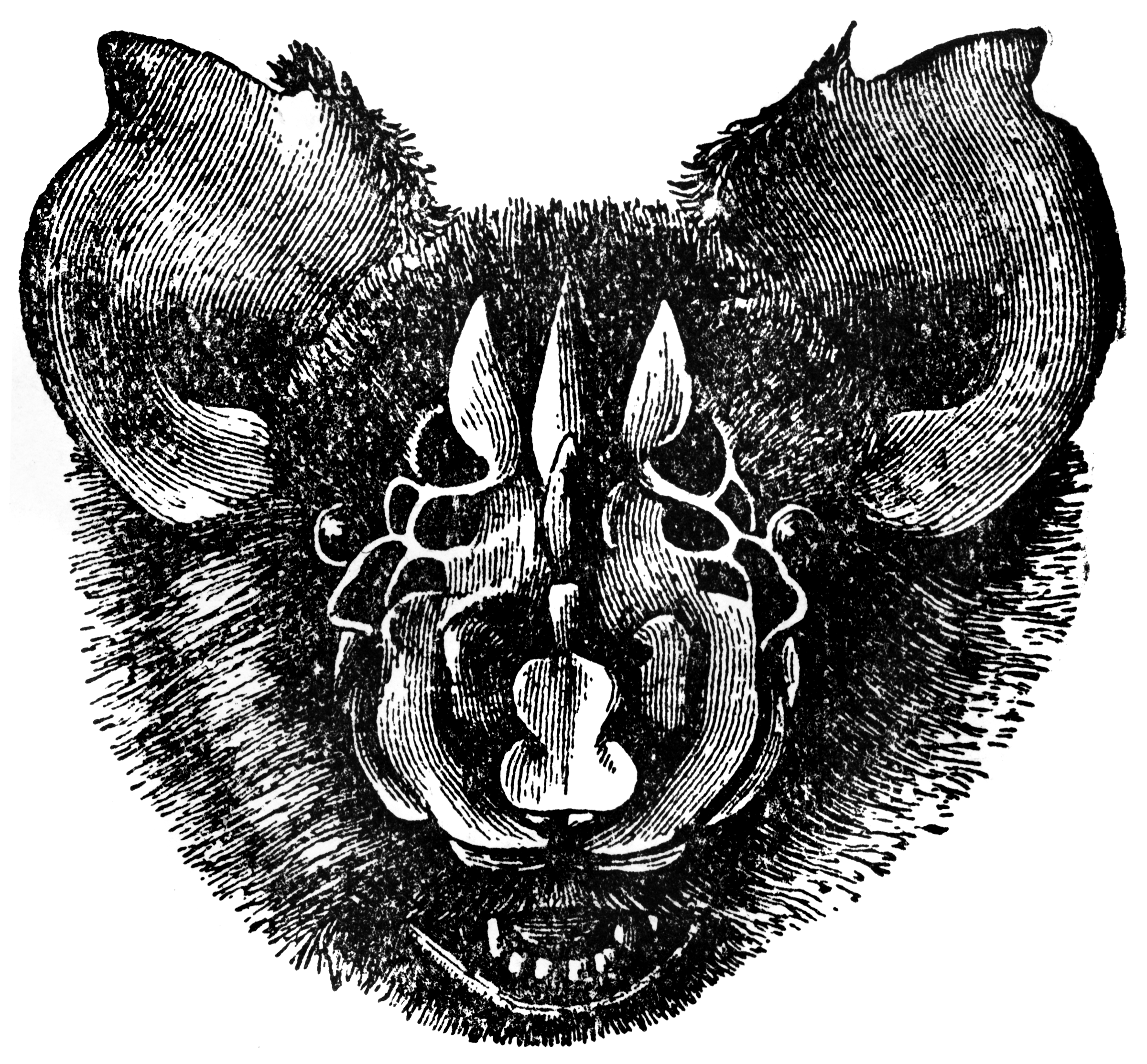 Triaenops persicus